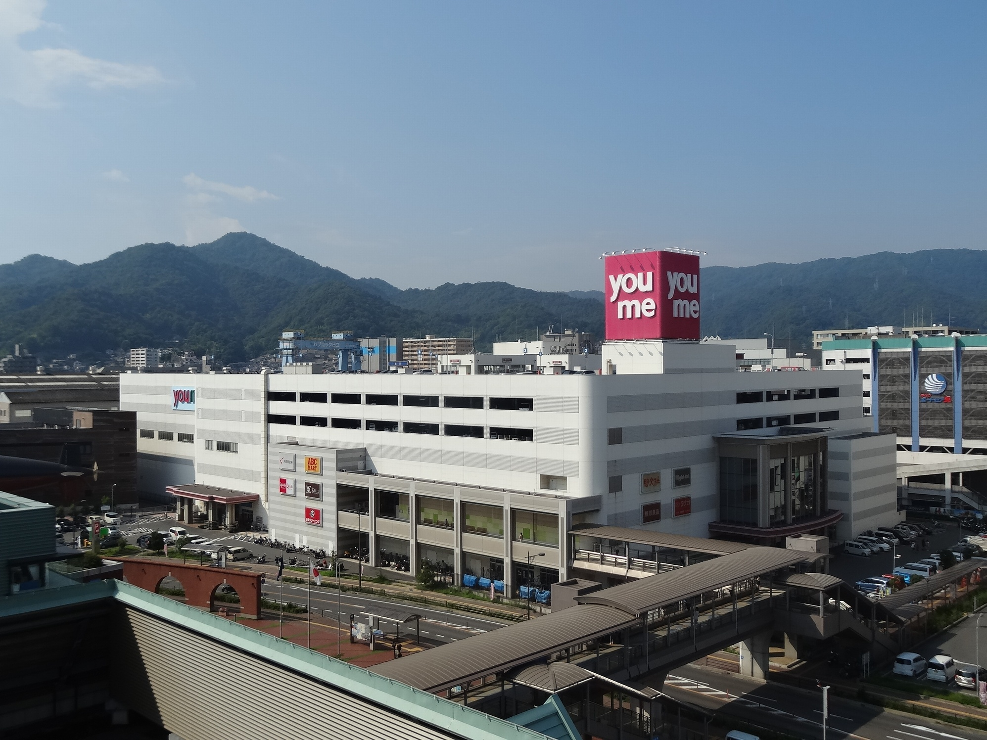 You me Town Kure Shopping Center (Kure City, Hiroshima Prefecture, Japan)